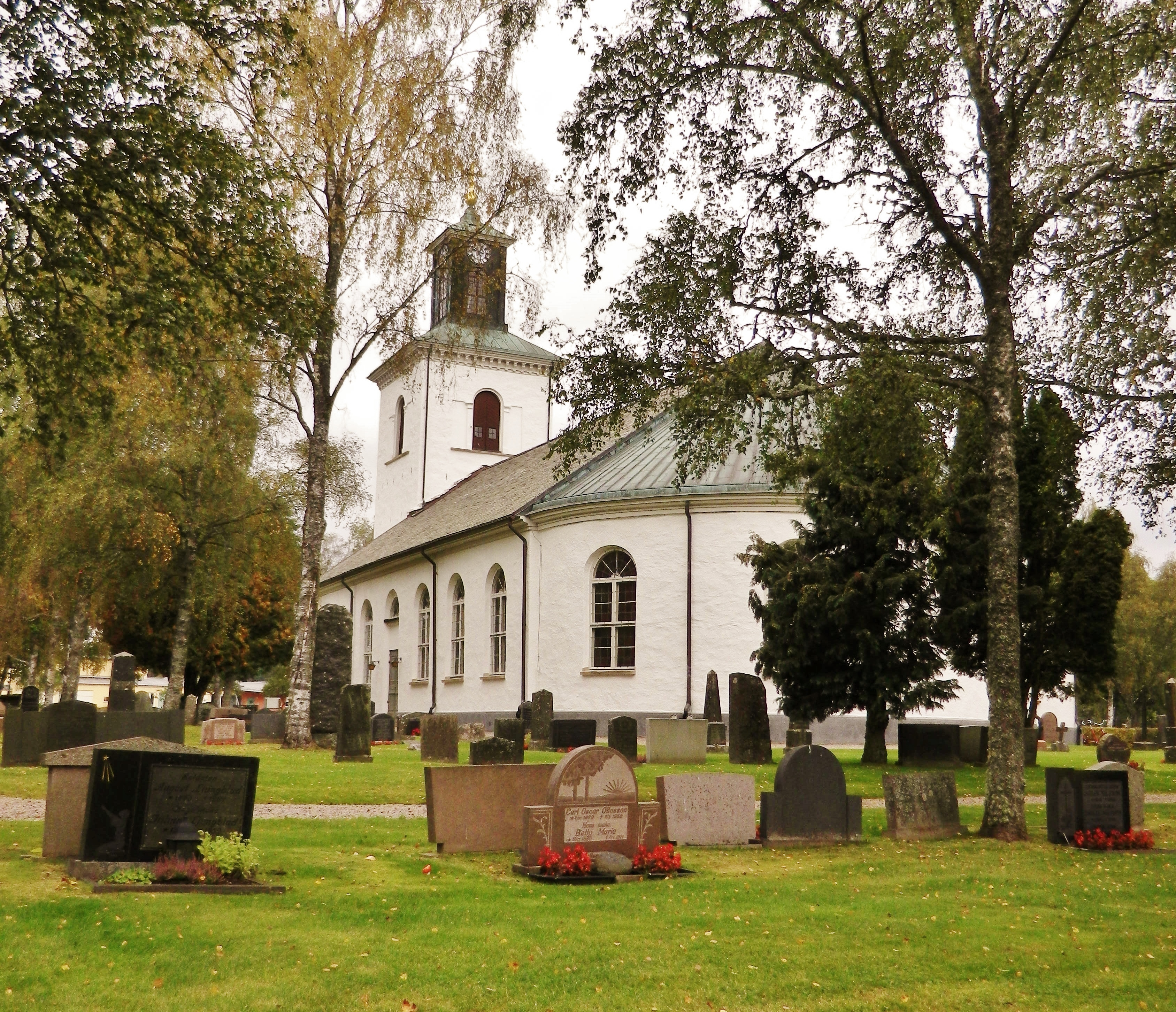 Ryssby Church,Kronobergs Country.Exterior